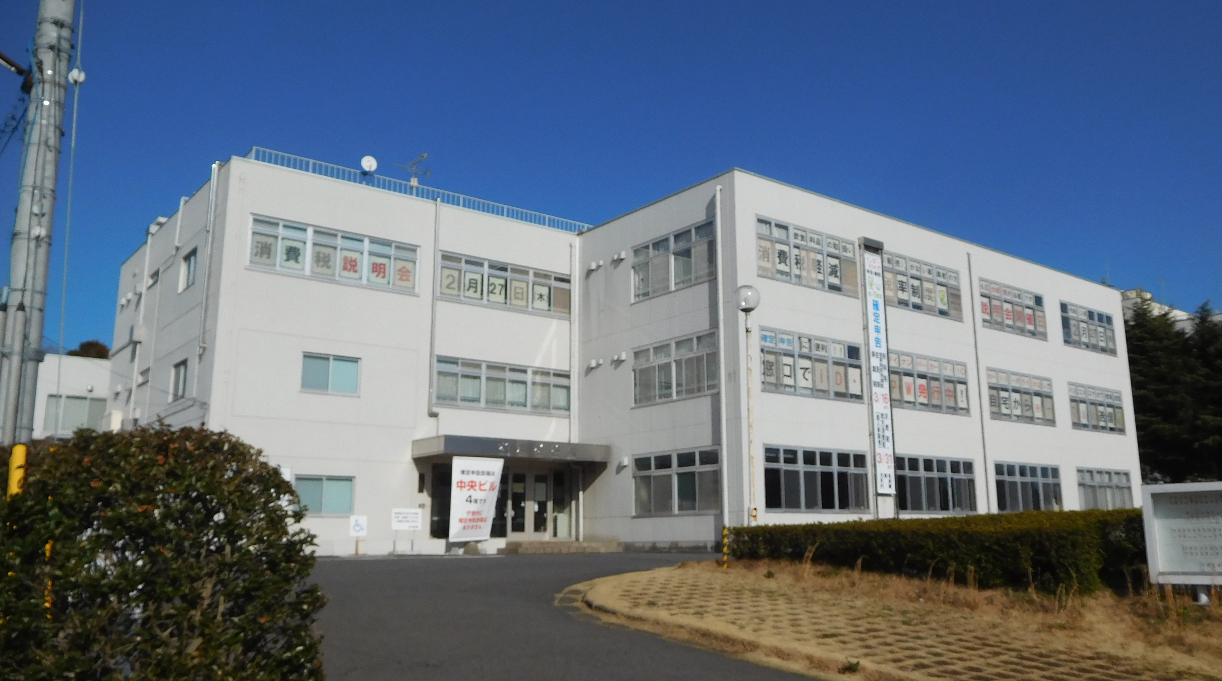 This is Mito tax office in Mito, Ibaraki, Japan.